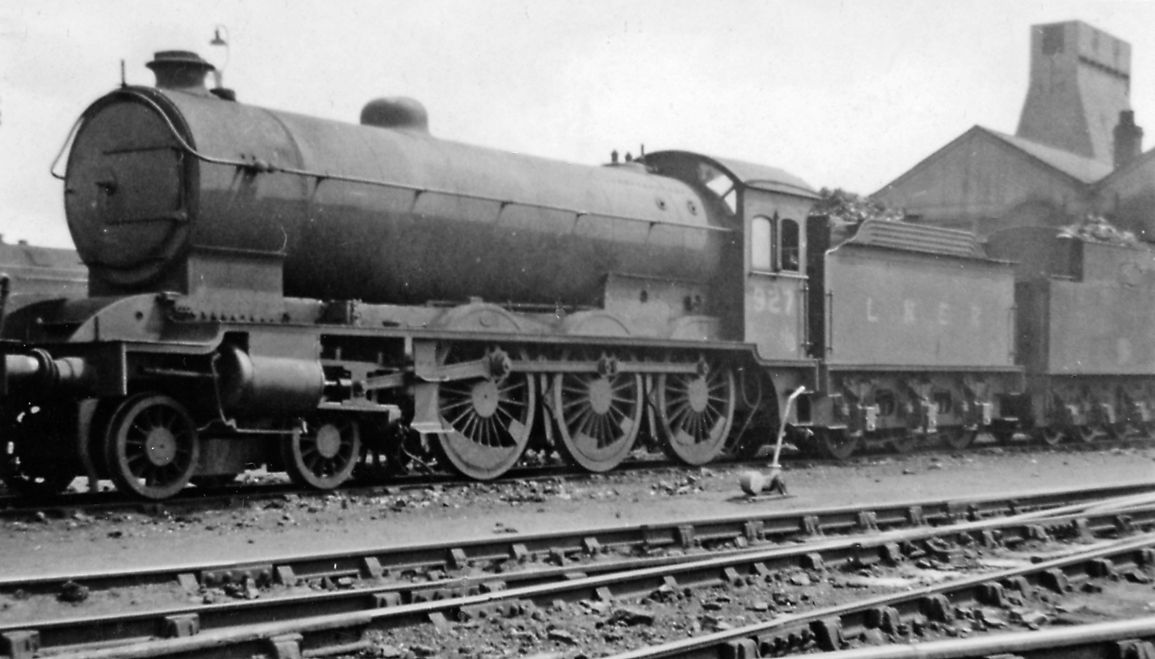 LNER B16/1 4-6-0 at New England Locomotive Depot. In the yard of this great ECML ex-GN Depot, ex-NE Raven B16/1 No. 927 (pre-1946 renumbering to 1422) (built 12/20, withdrawn 9/61) rests after no doubt bringing a freight up from York. The wide variety of duties provided by the Depot, for the traffic of the vast New England Yard, along the ECML and on the ex-GE line to March etc. (after the closure of Peterborough East Depot in 4/39), required the allocation of - in 1947 - no less than 201 locomotives:- 8 4-6-2, 3 4-6-0, 3 4-4-0, 29 2-8-0 (all ex-WD), 36 2-6-2, 41 2-6-0, 52 0-6-0, 7 4-4-2T, 21 0-6-0T and 1 0-4-0T. The B16 was of course a visitor, one of many.